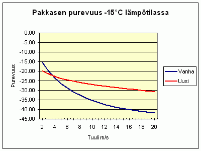 Wind Chill chart in Finnish.